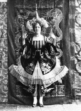 Mario Nunes Vais (1856-1932): "Lady Hortense Acton", spouse of art collector and dealer Sir Arthur Acton and mother of Harold Acton; together with her husband she owned the Villa La Pietra in Florence, Italy.